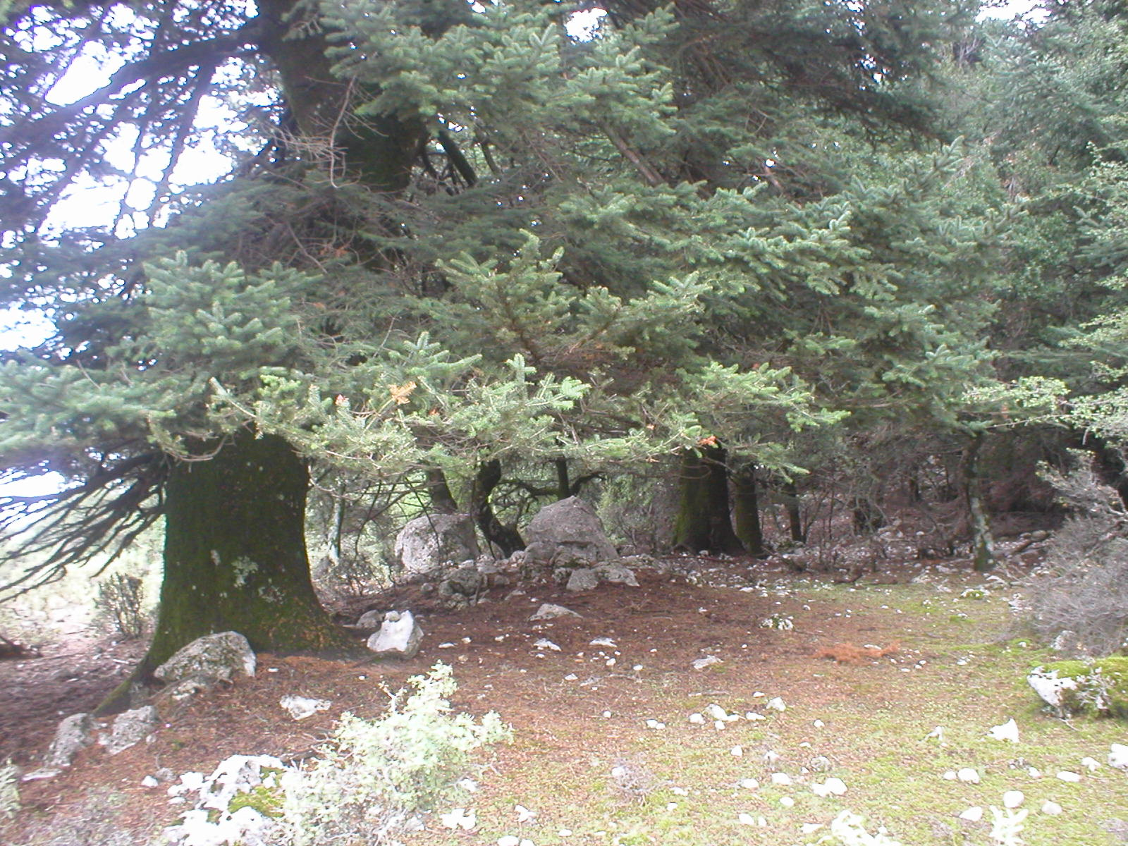 Forest on the Mount Aenos, Kefalonia